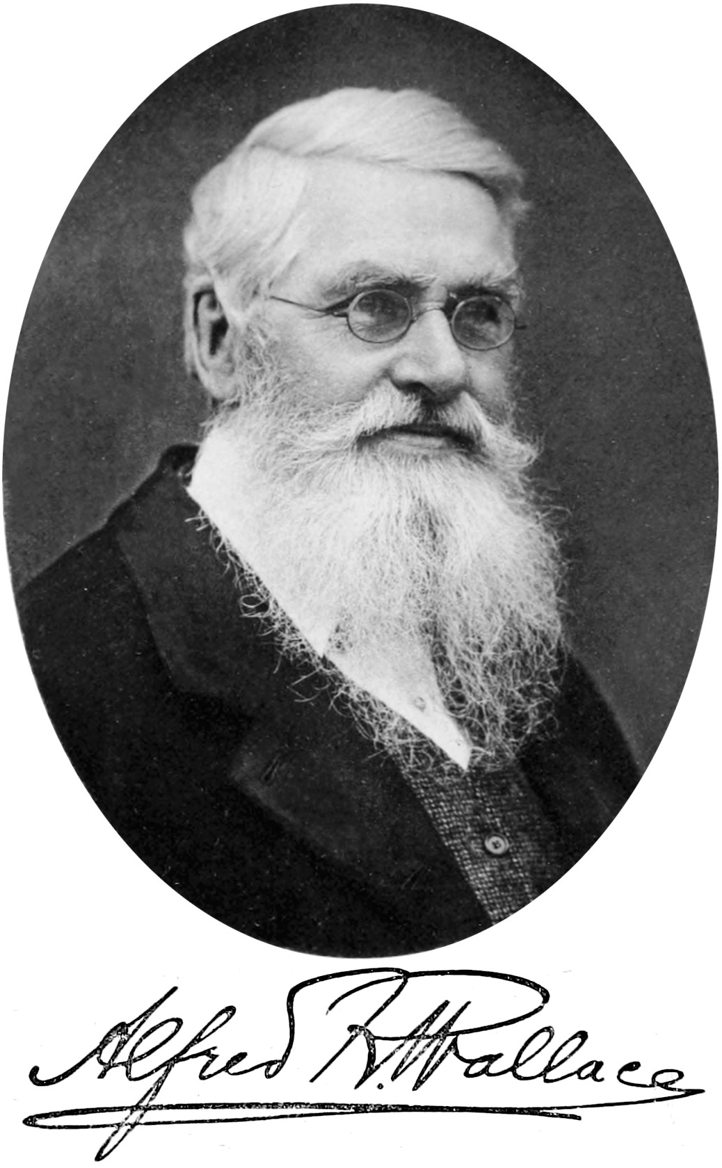 Alfred Russel Wallace - Project Gutenberg eText 14558